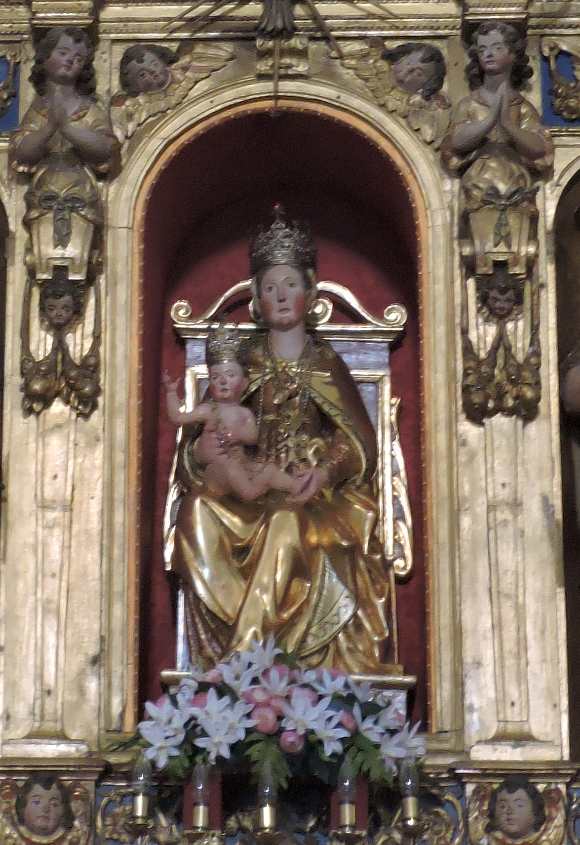 Santuario della Madonna della Ceriola (monte Isola, BS, Italy): Virgin's with Child wooden statue